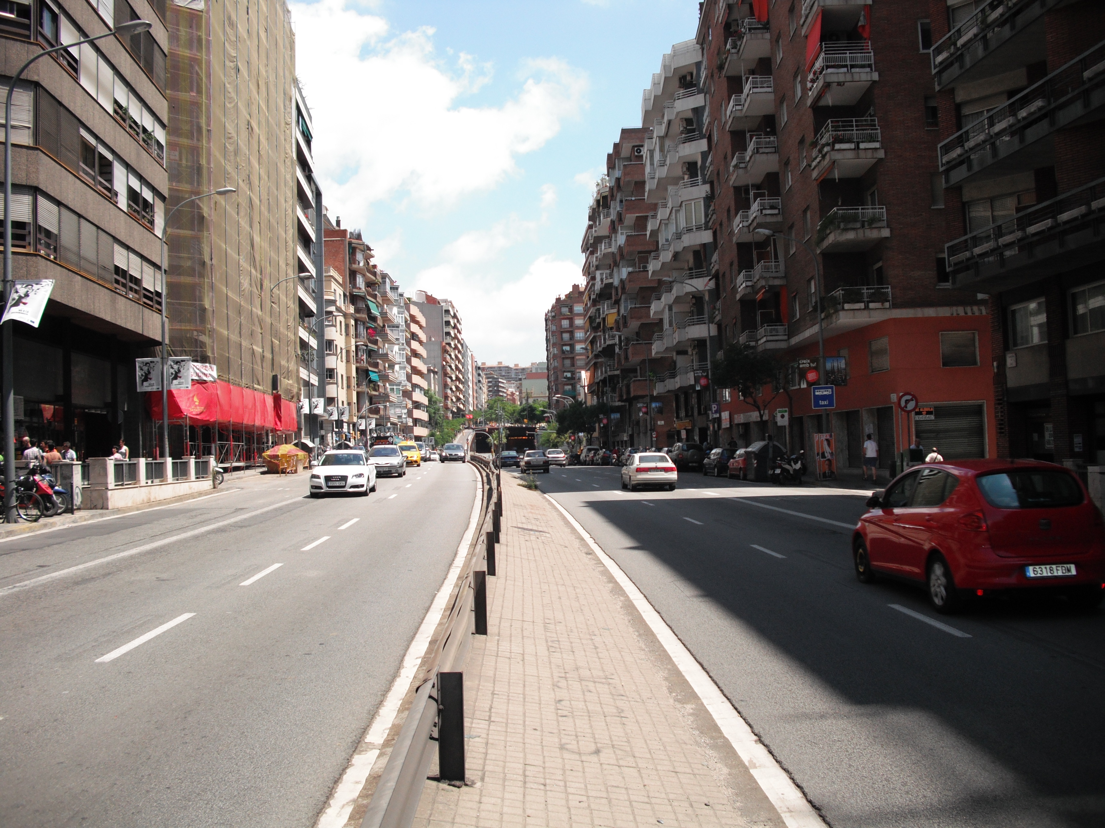 Travassera de Dalt (street) in Barcelona.